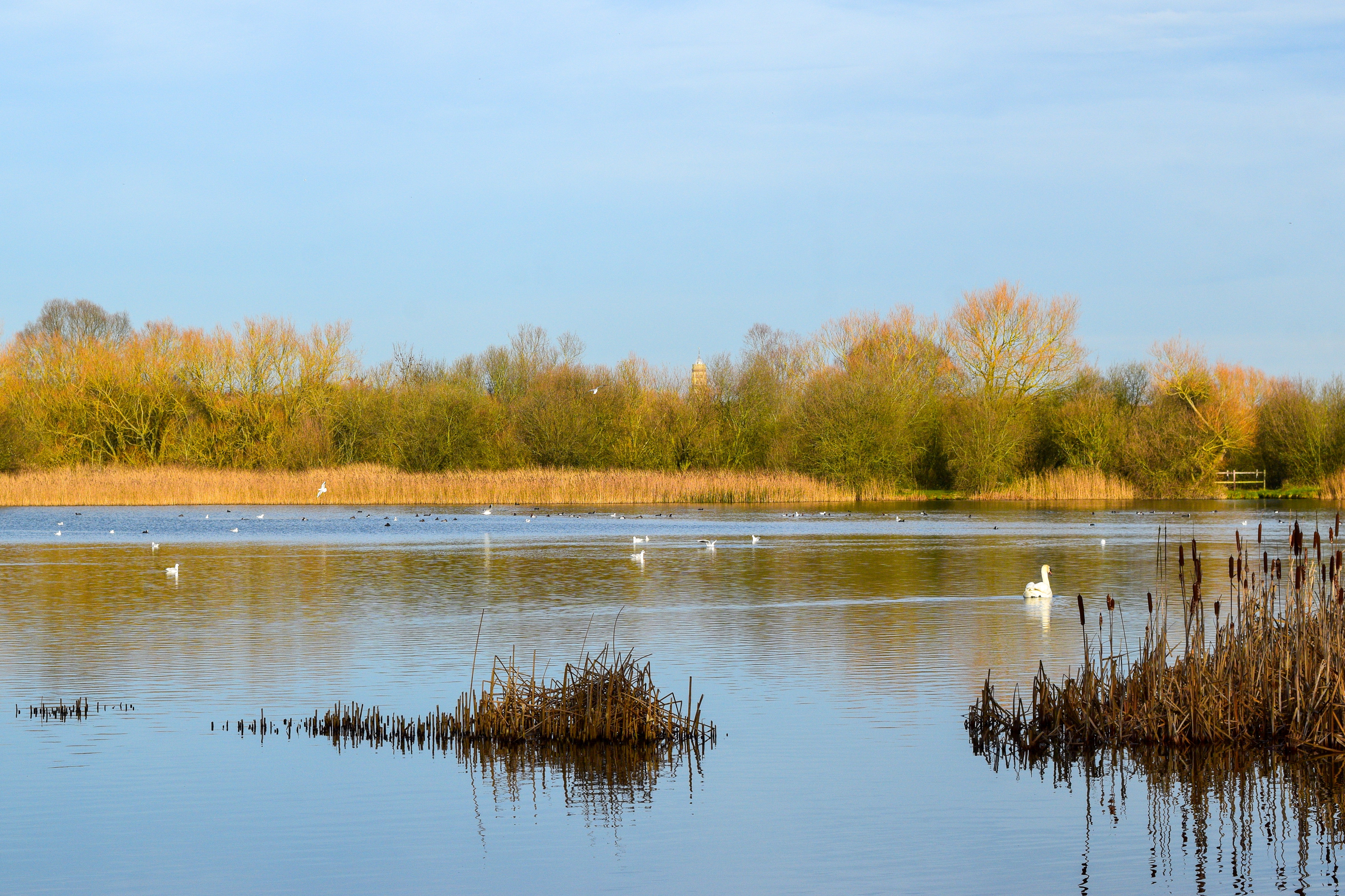 View looking North across Corner Lake in December 2015. The top of the lantern tower of St. Peter's Church can be seen behind the trees.